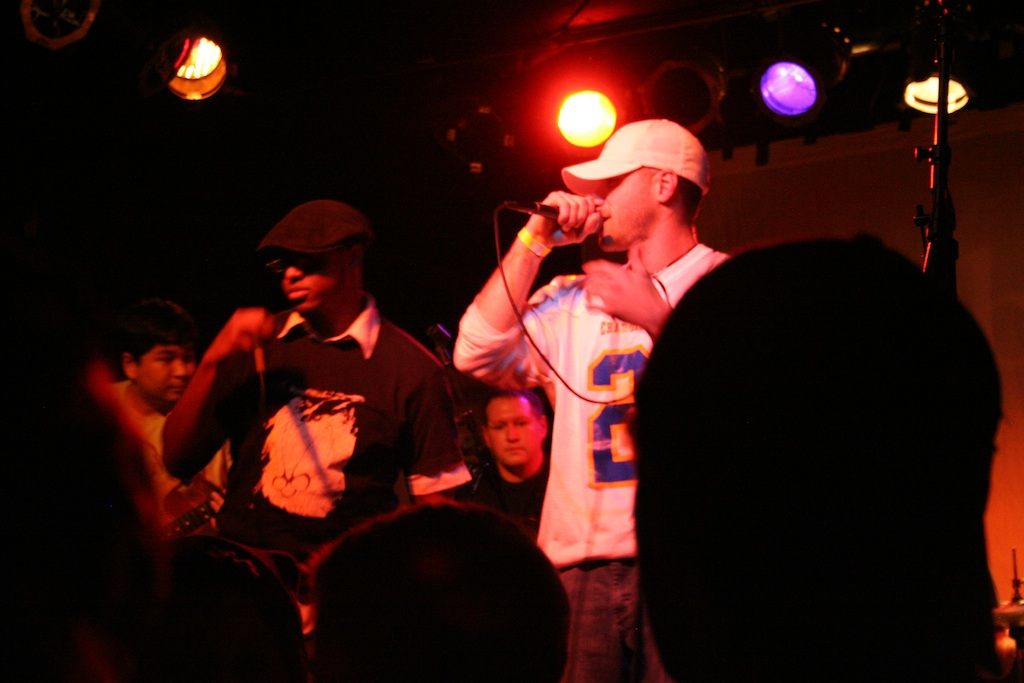 Live at The Abbey Pub Chicago, IL